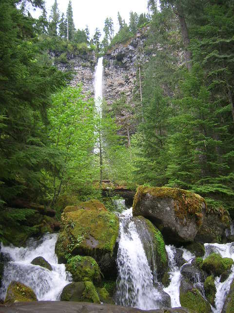 Watson Falls on Watson Creek in Douglas County, Oregon, United States